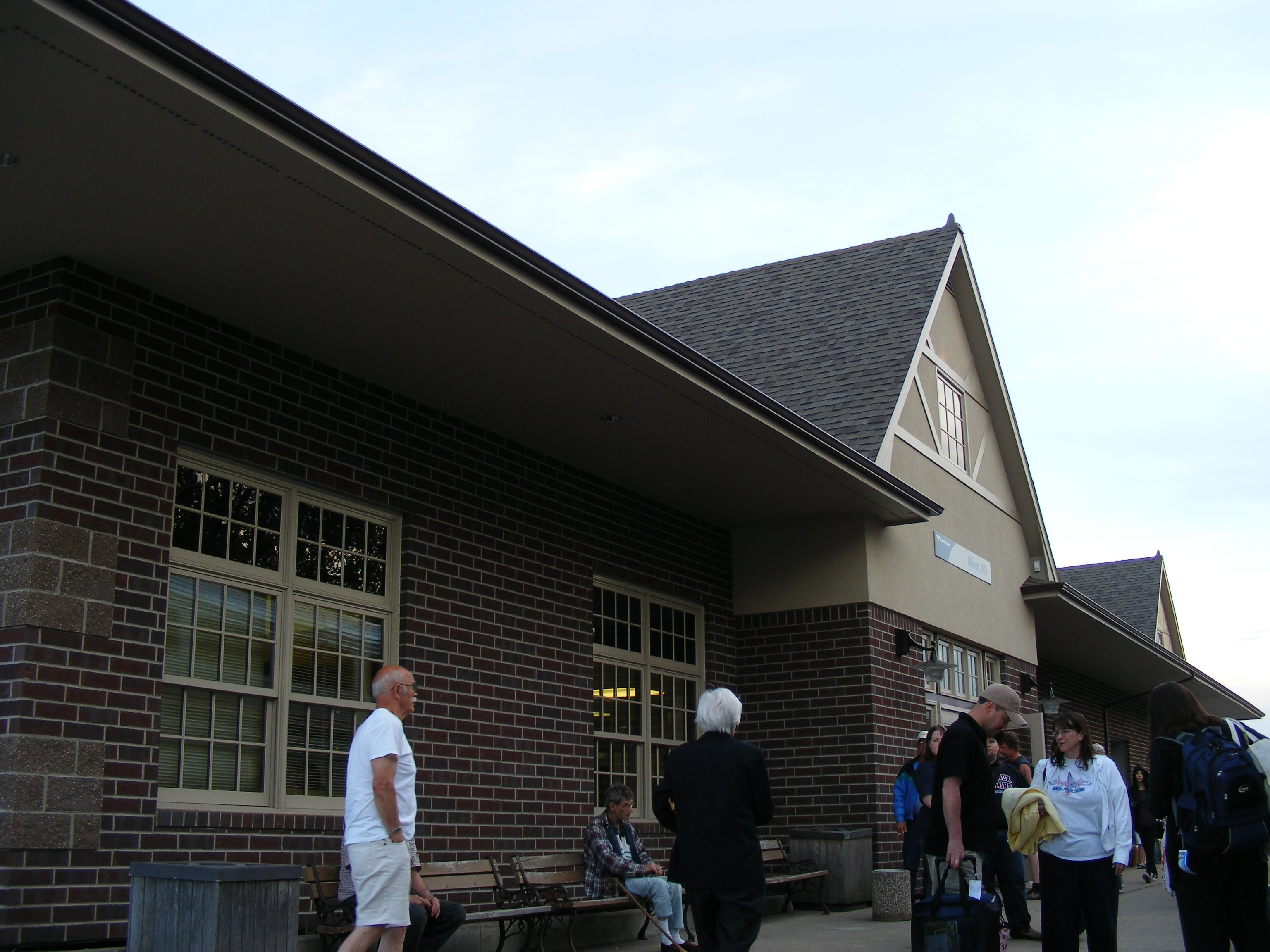 The restored station in Minot, North Dakota in 2009.